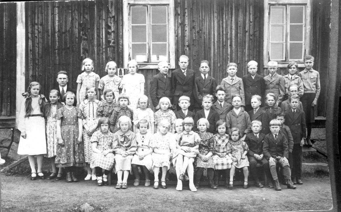 School children in Aure, 1935